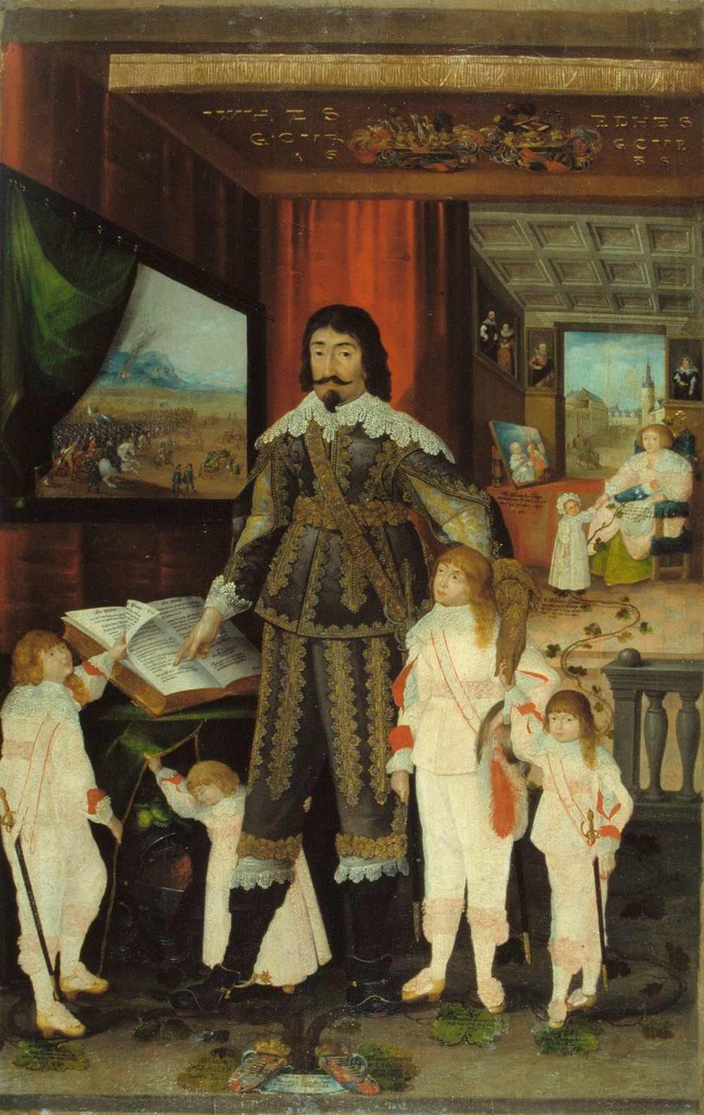 William, Duke of Saxe-Weimar with his wife and elder children.